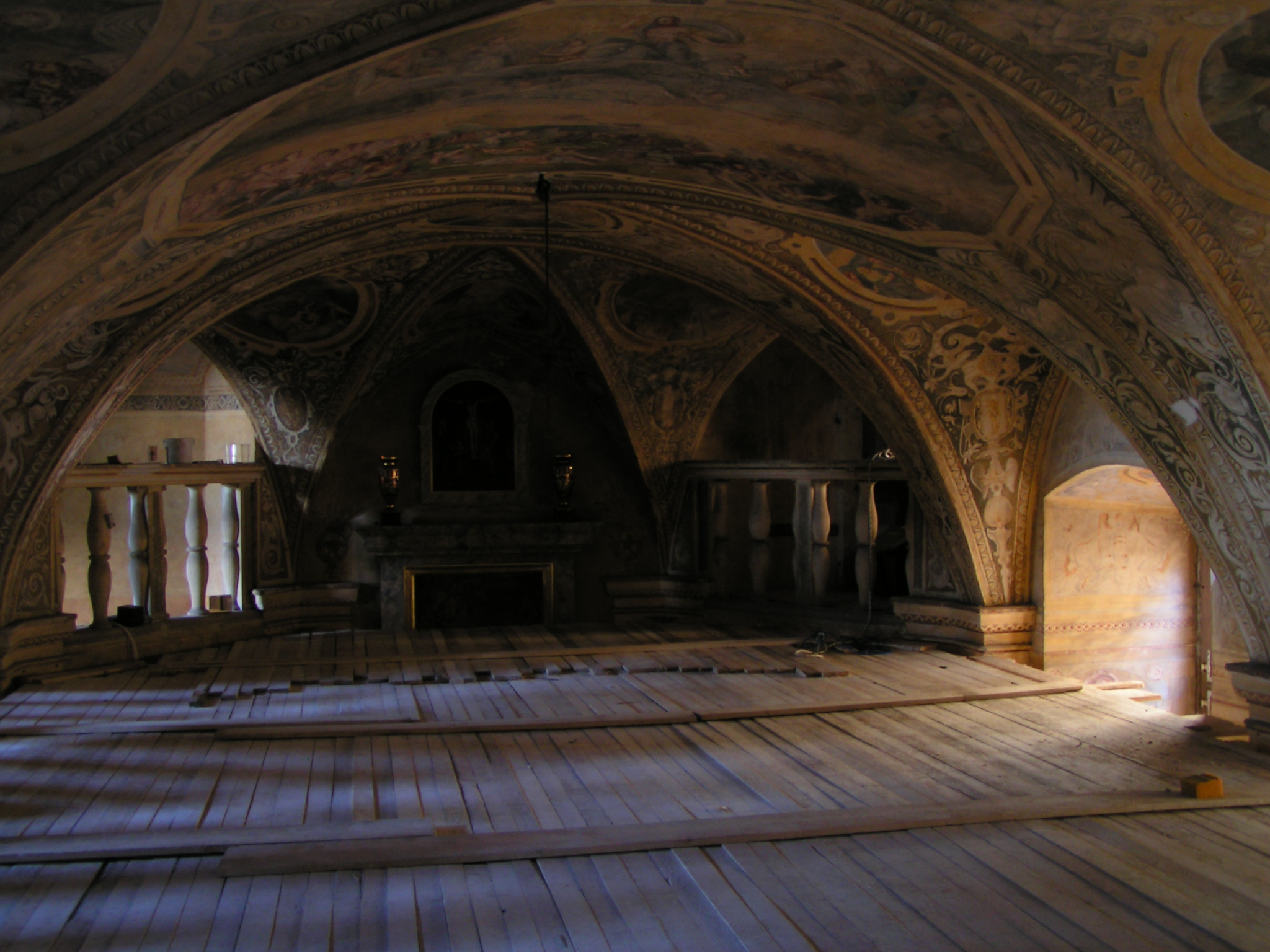 Grabštejn Castle. Top of St. Barbara chappel